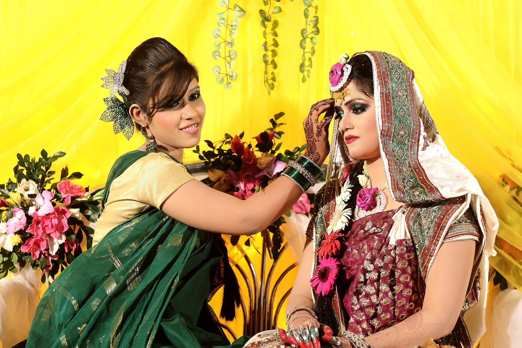 Bride's friends apply turmeric paste to her face and body, as a part of the Gaye Holud ceremony.